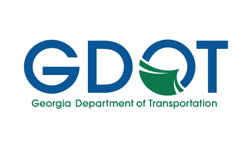 Georgia Department of Transportation Logo